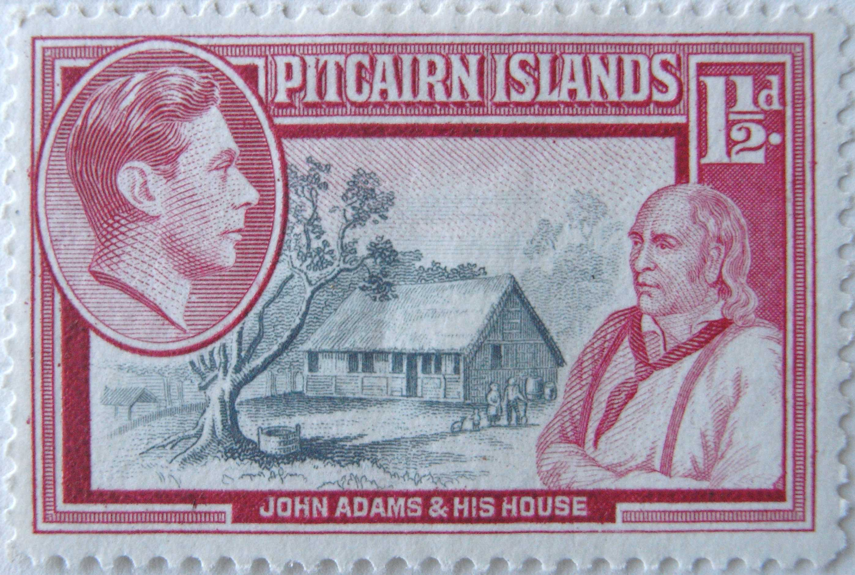 1½-Penny stamp of the Pitcairn Islands